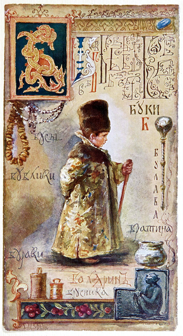 Cyrillic letter B from abc book